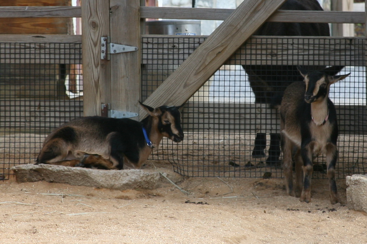 San Clemente Island goats are a highly endangered breed.